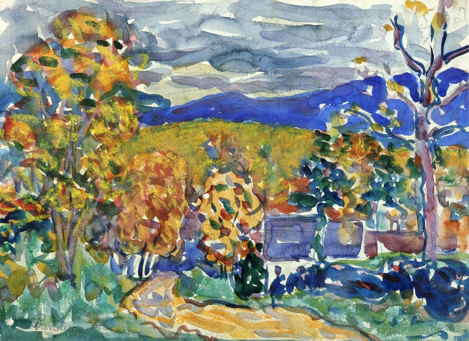 "Autumn in New England," by the American artist Maurice Prendergast, watercolor. 11" X 15.5". Private collection.